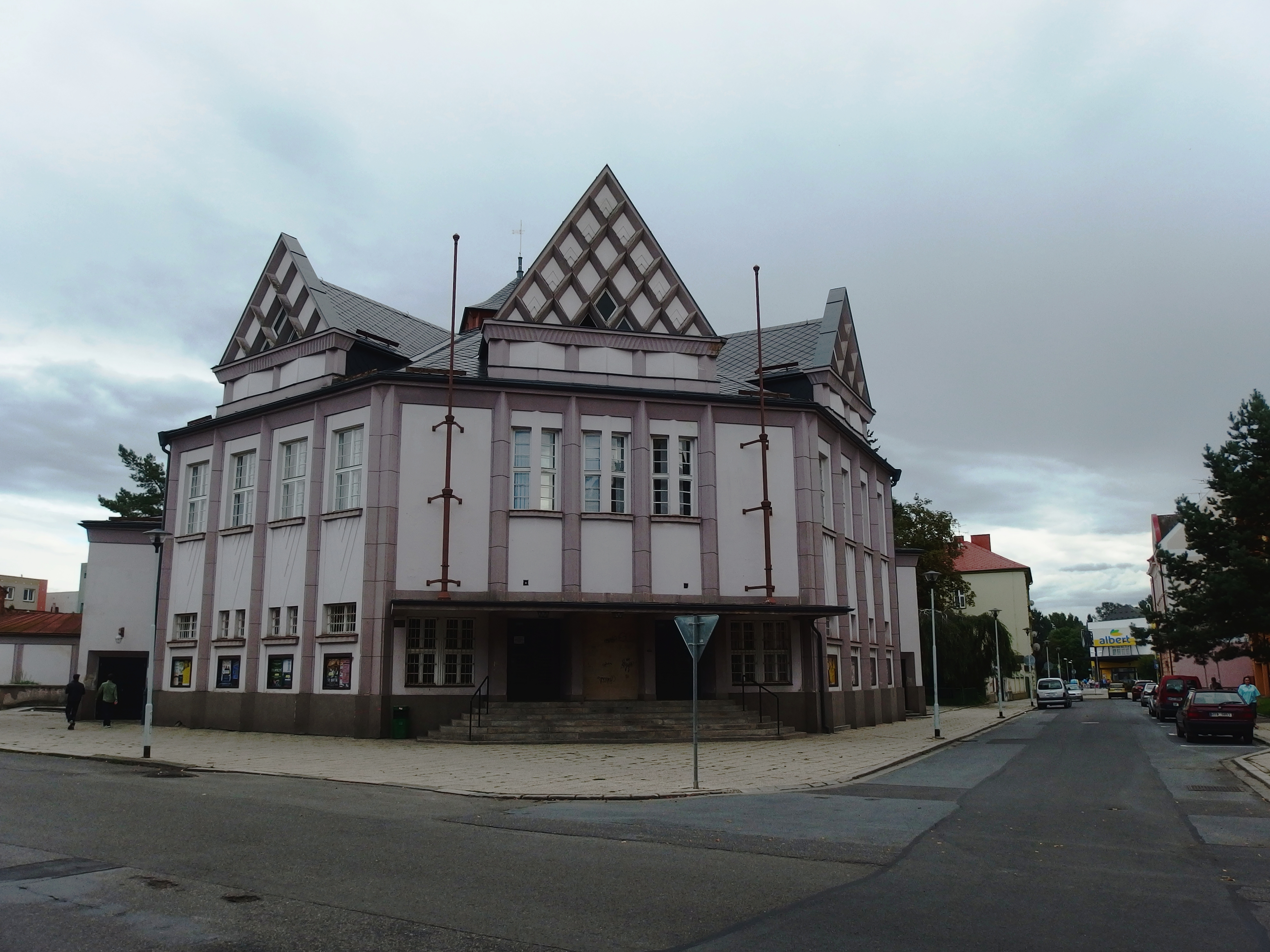 Krnov, Bruntál District, Czech Republic. Theater.